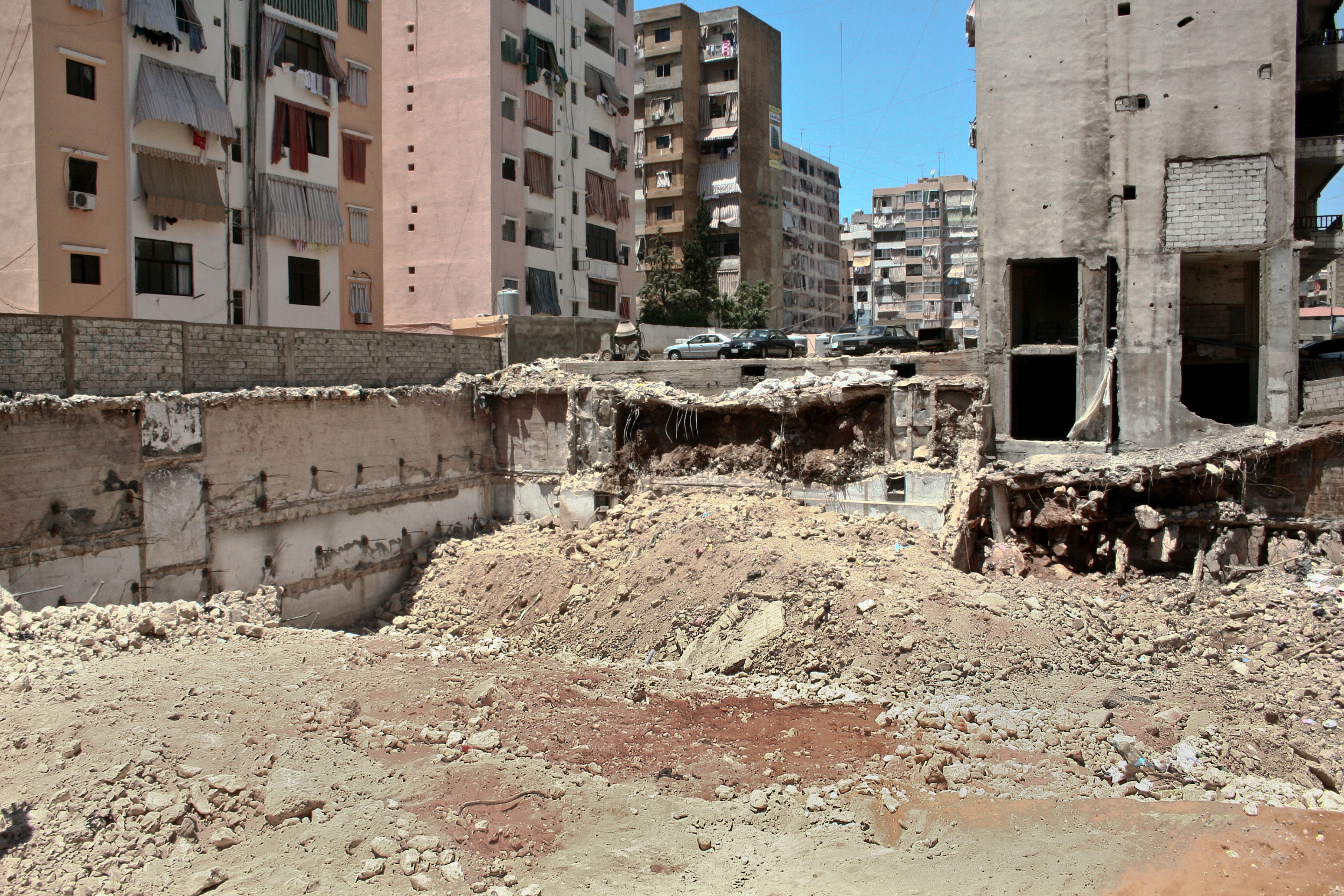 Crater from destroyed buildings in Beirut suburb Dahieh Al Janubiya two years after the Second Lebanon War of 2006. Norsk (nynorsk): Krater etter sprengte bustadblokker i Dahieh Al Janubiya, ein forstad av Beirut, to år etter Israels bombing i 2006.